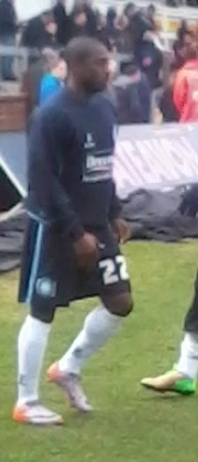 Bristol Rovers v Wycombe Wanderers 16 February 2013